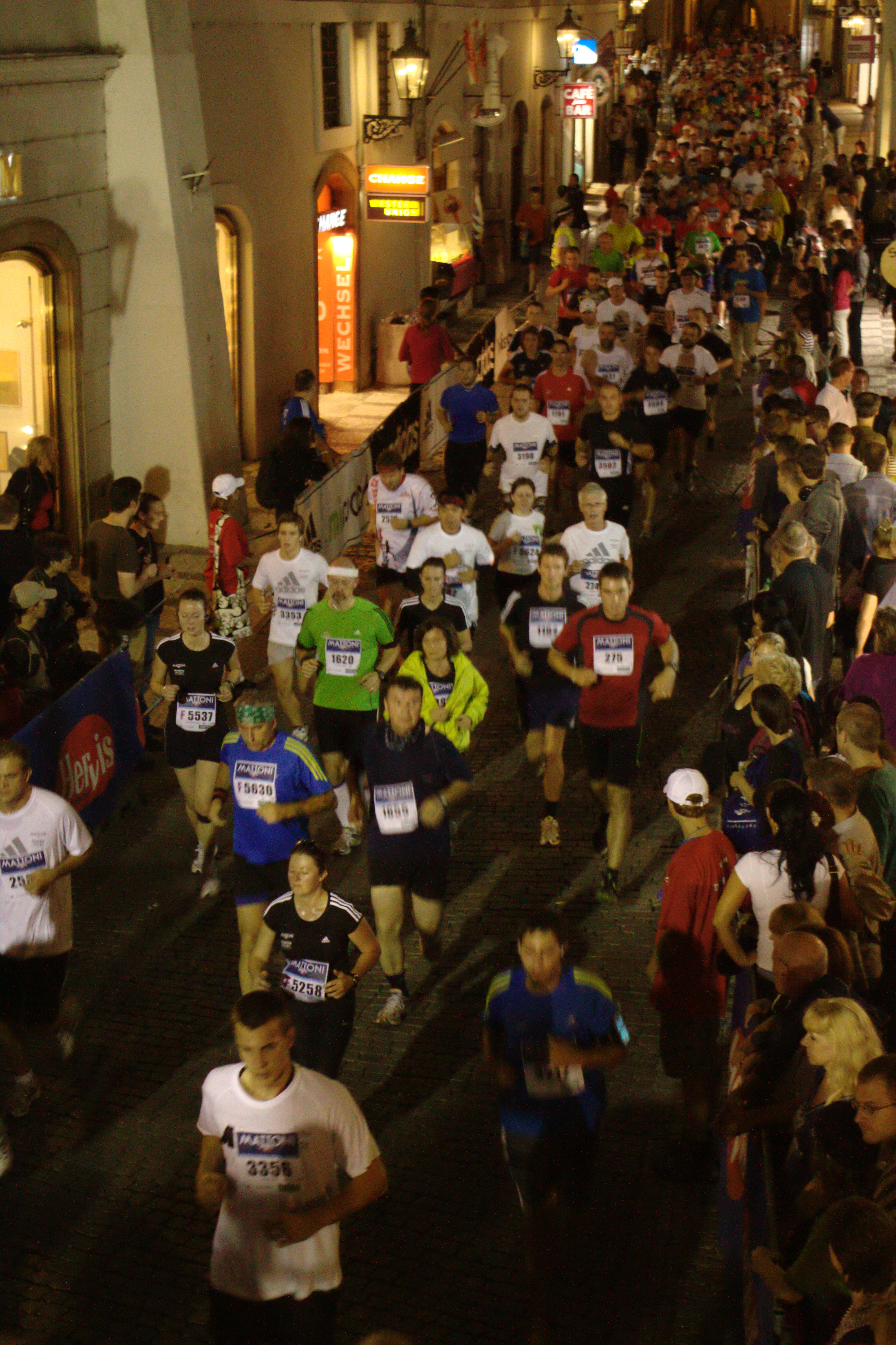 Prague international marathon (midnight), runners are running through Železná street to Old Town Square Personality rights warningAlthough this work is freely licensed or in the public domain, the person(s) shown may have rights that legally restrict certain re-uses unless those depicted consent to such uses. In these cases, a model release or other evidence of consent could protect you from infringement claims.